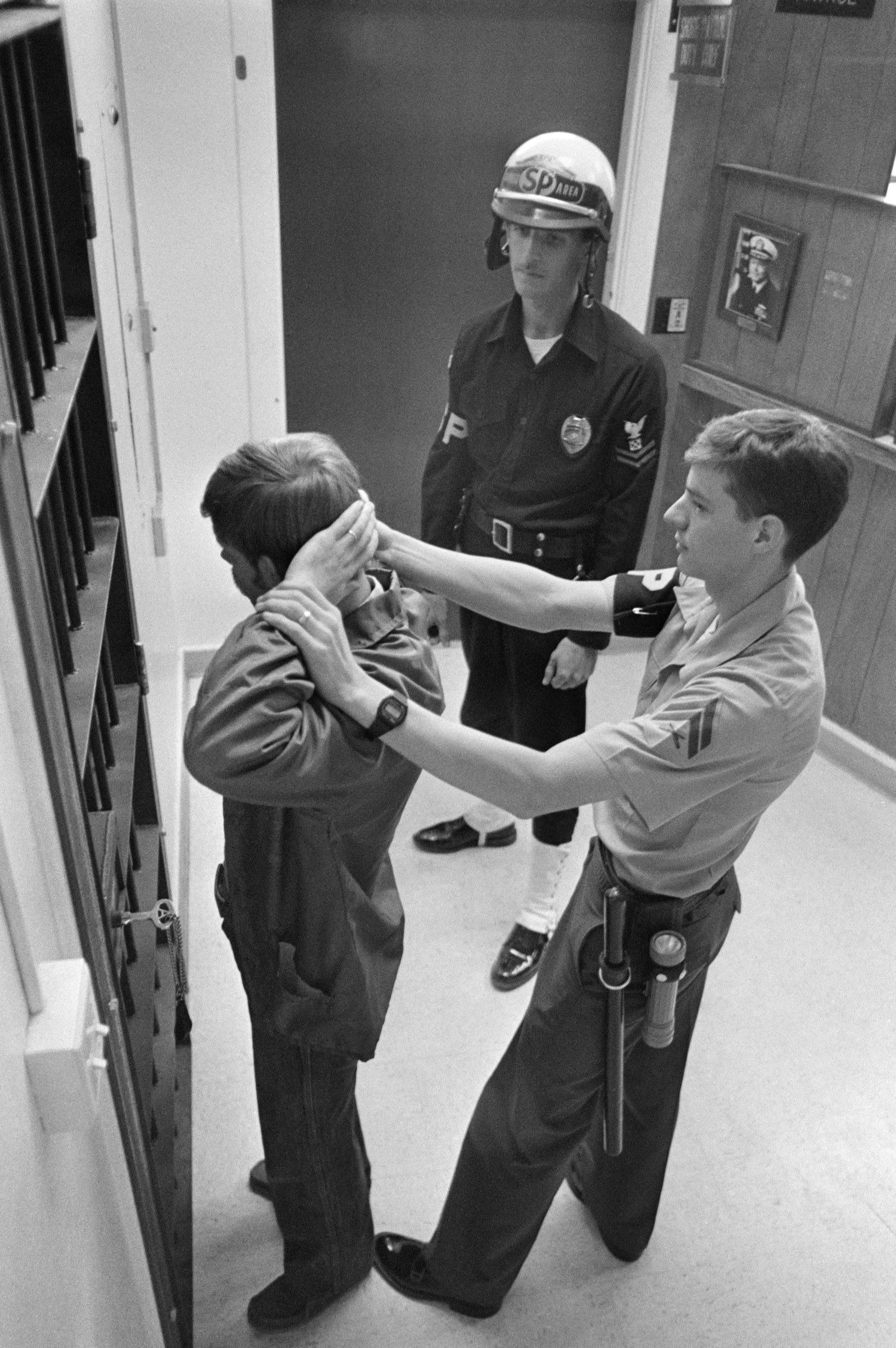 Corporal Thomas, on shore patrol duty, prepares to put handcuffs on an unauthorized absentee serviceman as Master-At-Arms 1st Class Getman stands by.